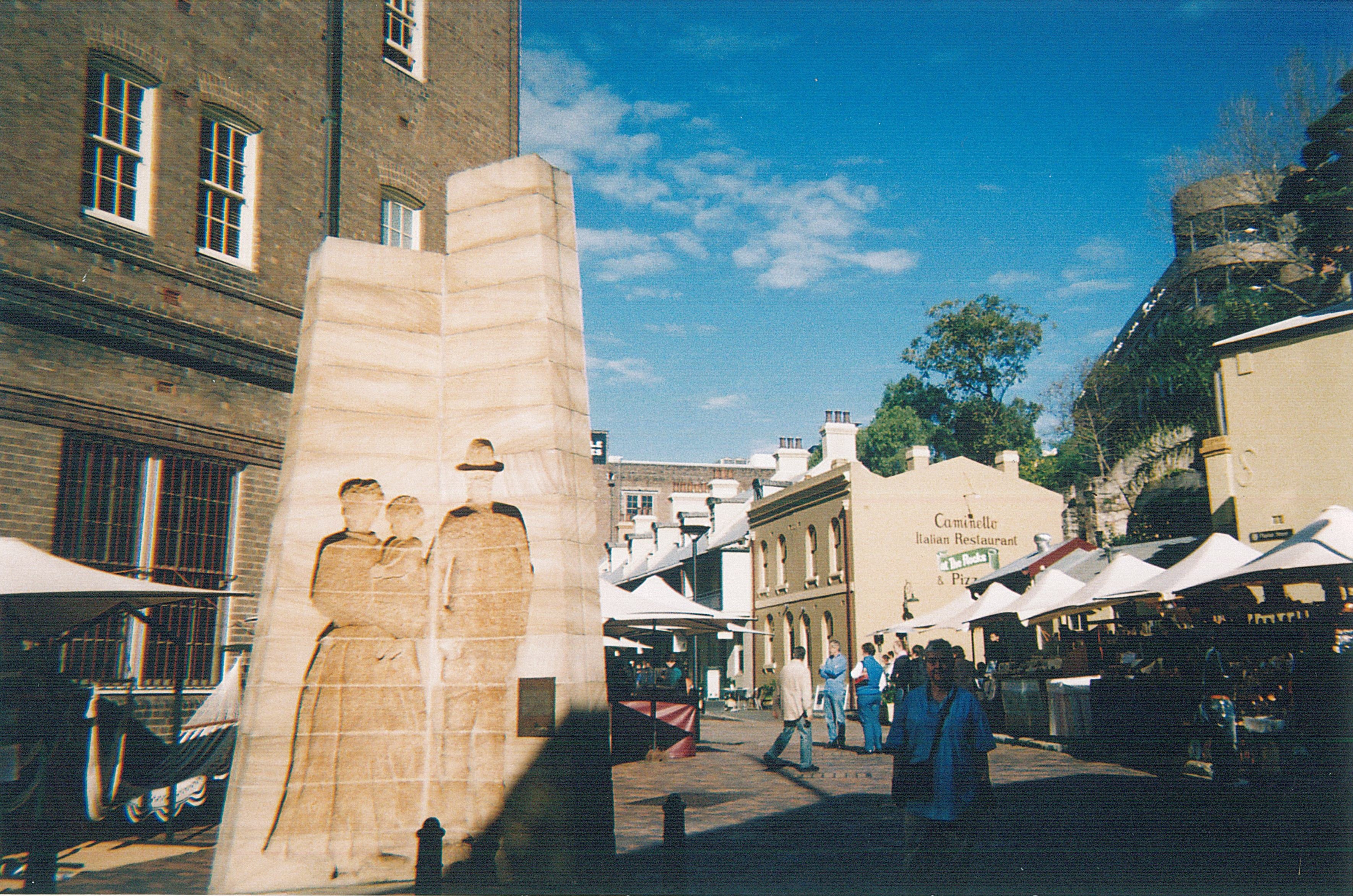 This is the First Impression sculpture in The Rocks, Syndey, Australia, taken in July 2006